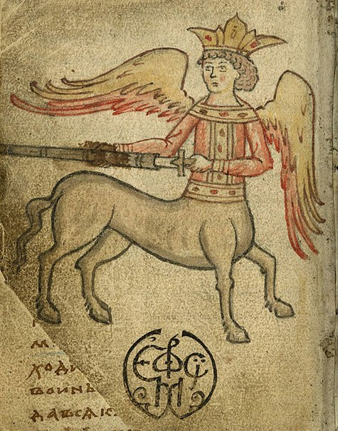 Kitovras